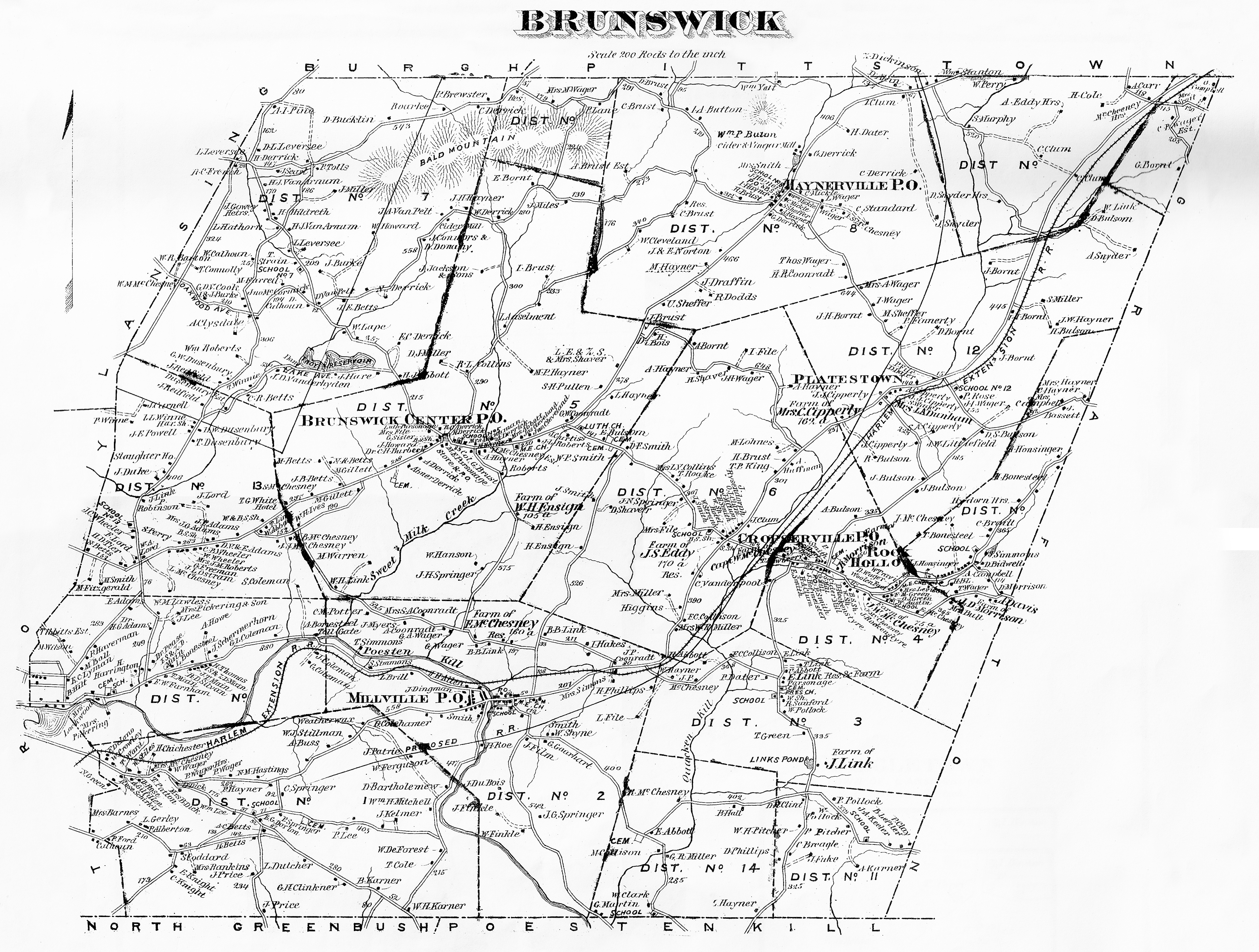 Map of the town of Brunswick, New York, United States in 1876 featuring school district boundaries, roads, hamlet names, and names of lot owners